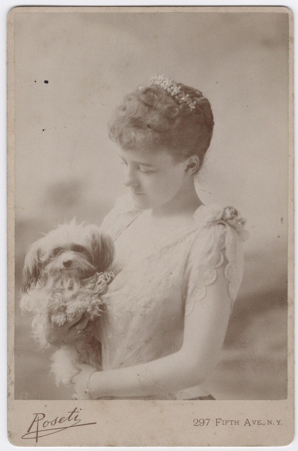 Edith Wharton collection/Beinecke 10061396. Edith Wharton as a young woman, ca. 1889